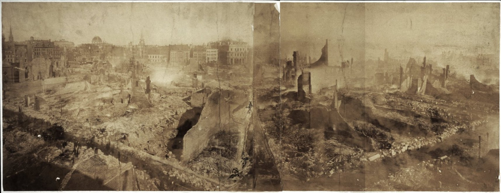 Boston, after the fire, November 9th & 10th, 1872. Digitally enhanced (colors adjusted & tear partially hidden) by Dave Pape.